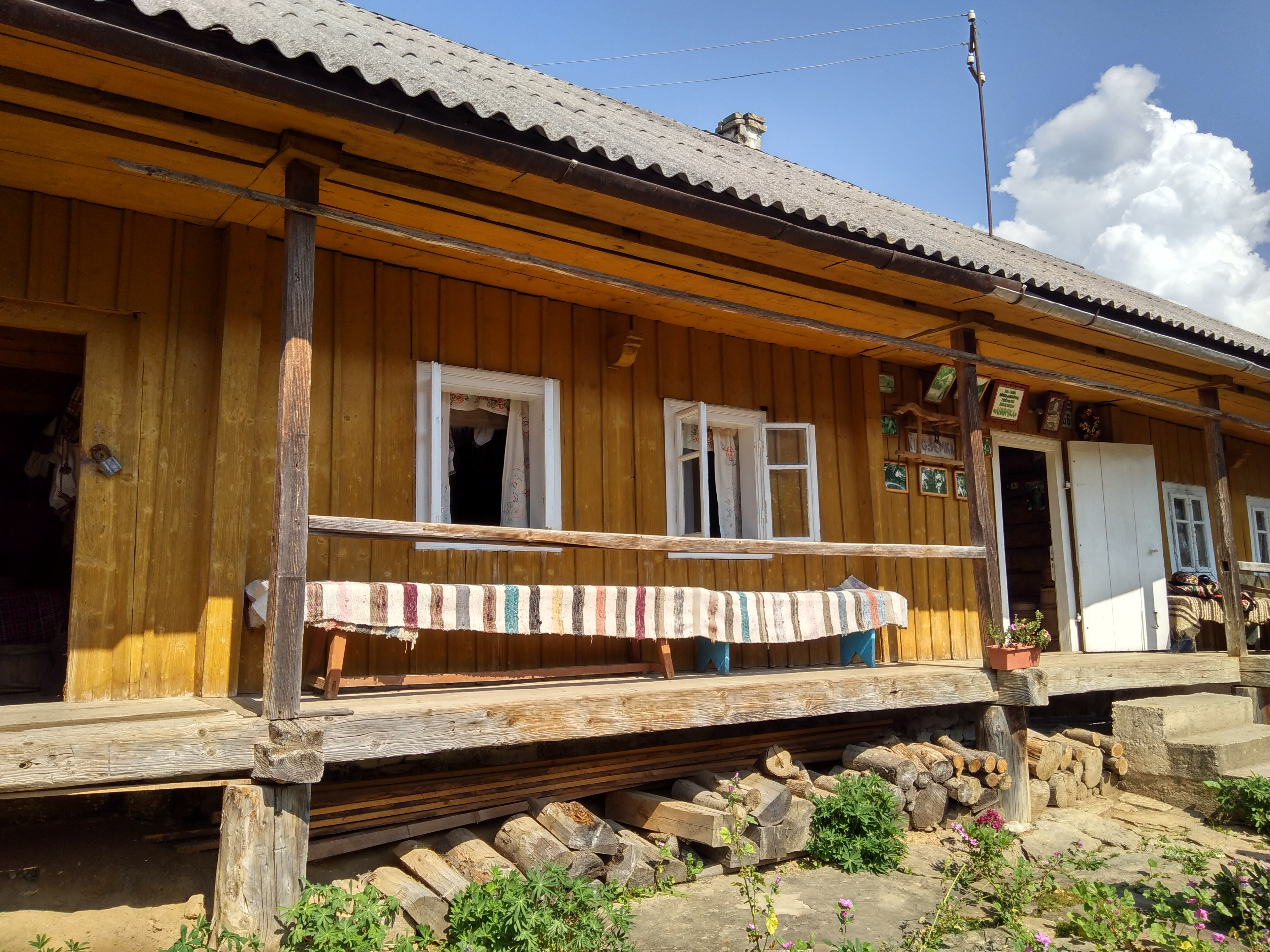 Verkhovyna (Ivano-Frankivsk Oblast, Ukraine), Film "Annychka" Muzeum